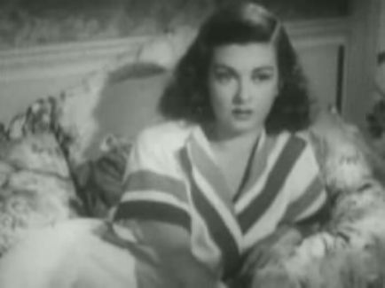 Screenshot of Joan Bennett from the film Scarlet Street